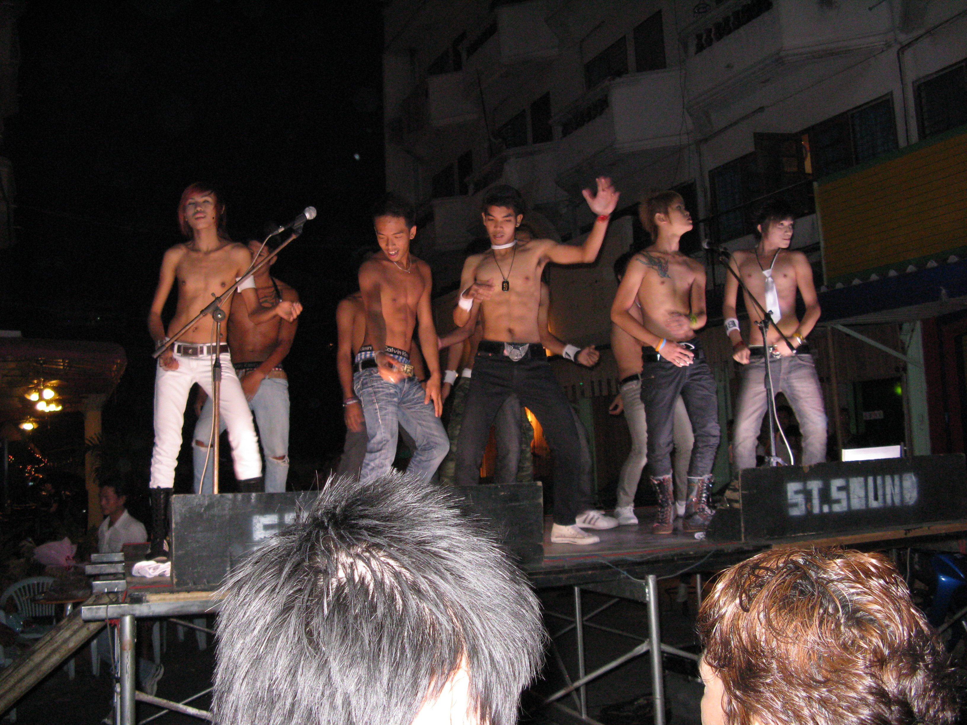 Valentine's Night Party in Sunee Plaza, Pattaya